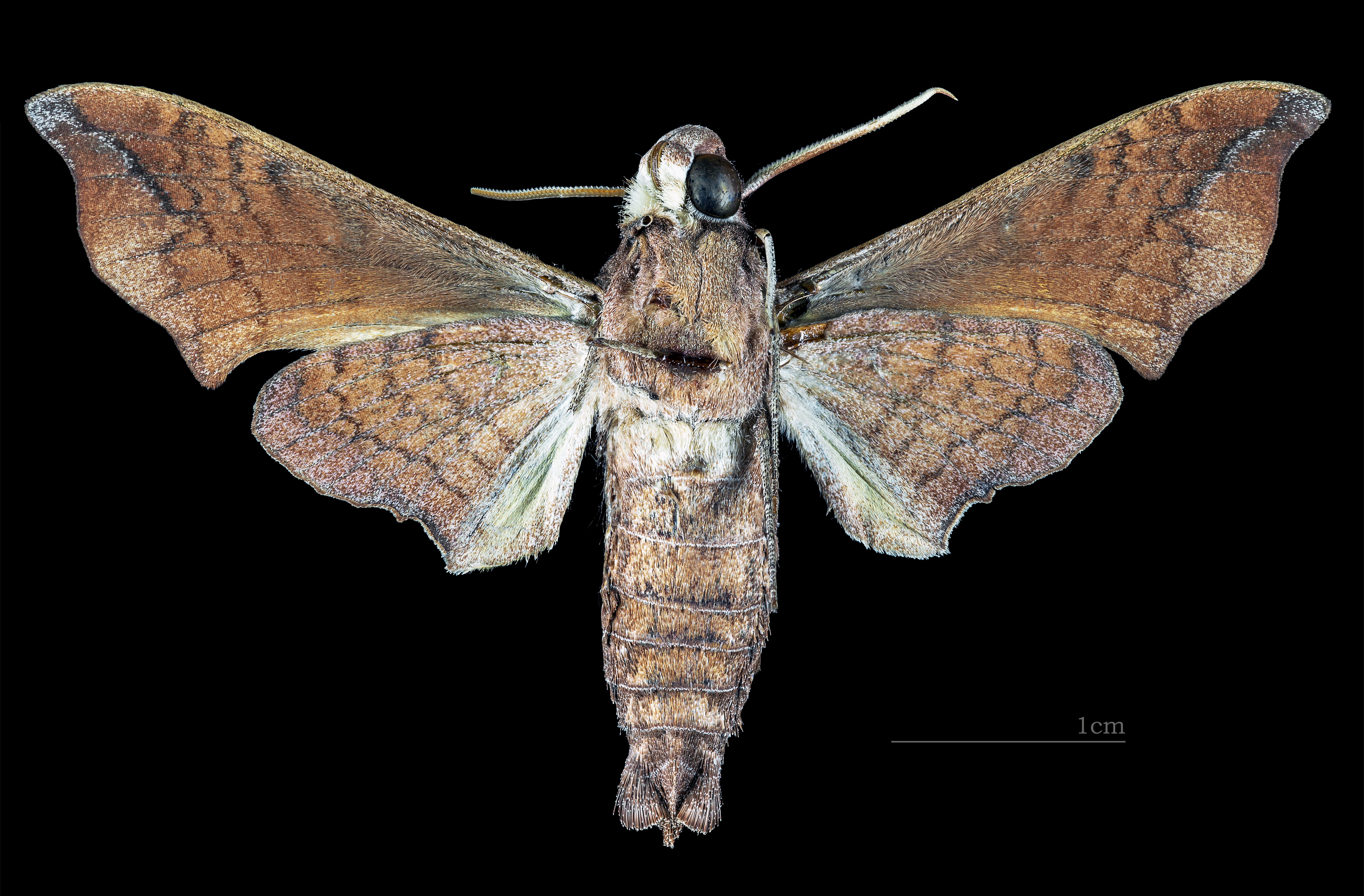 Perigonia pallida - △ Ventral side Collection of the Mathematician Laurent Schwartz